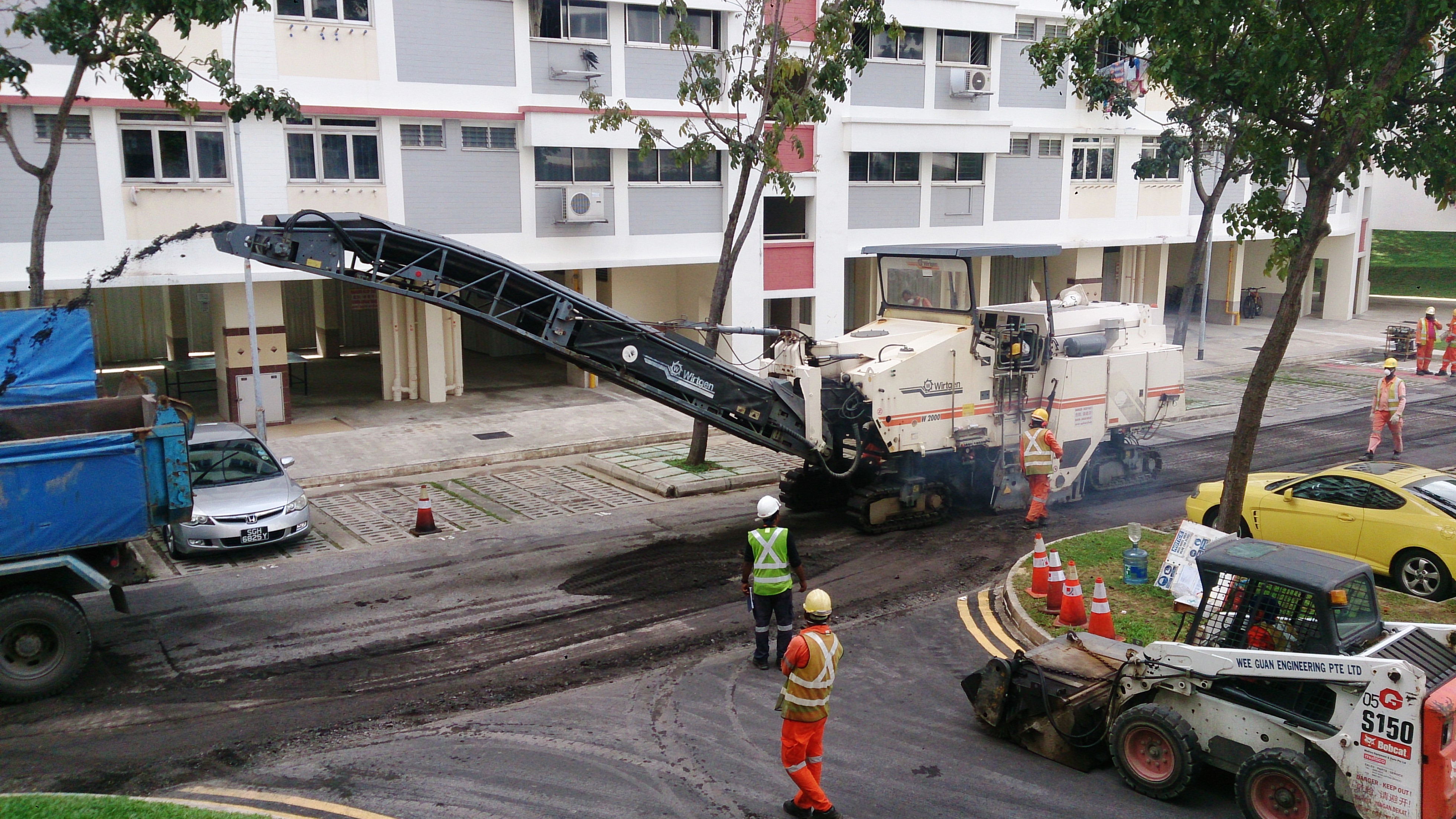 Cold milling machine W 2000